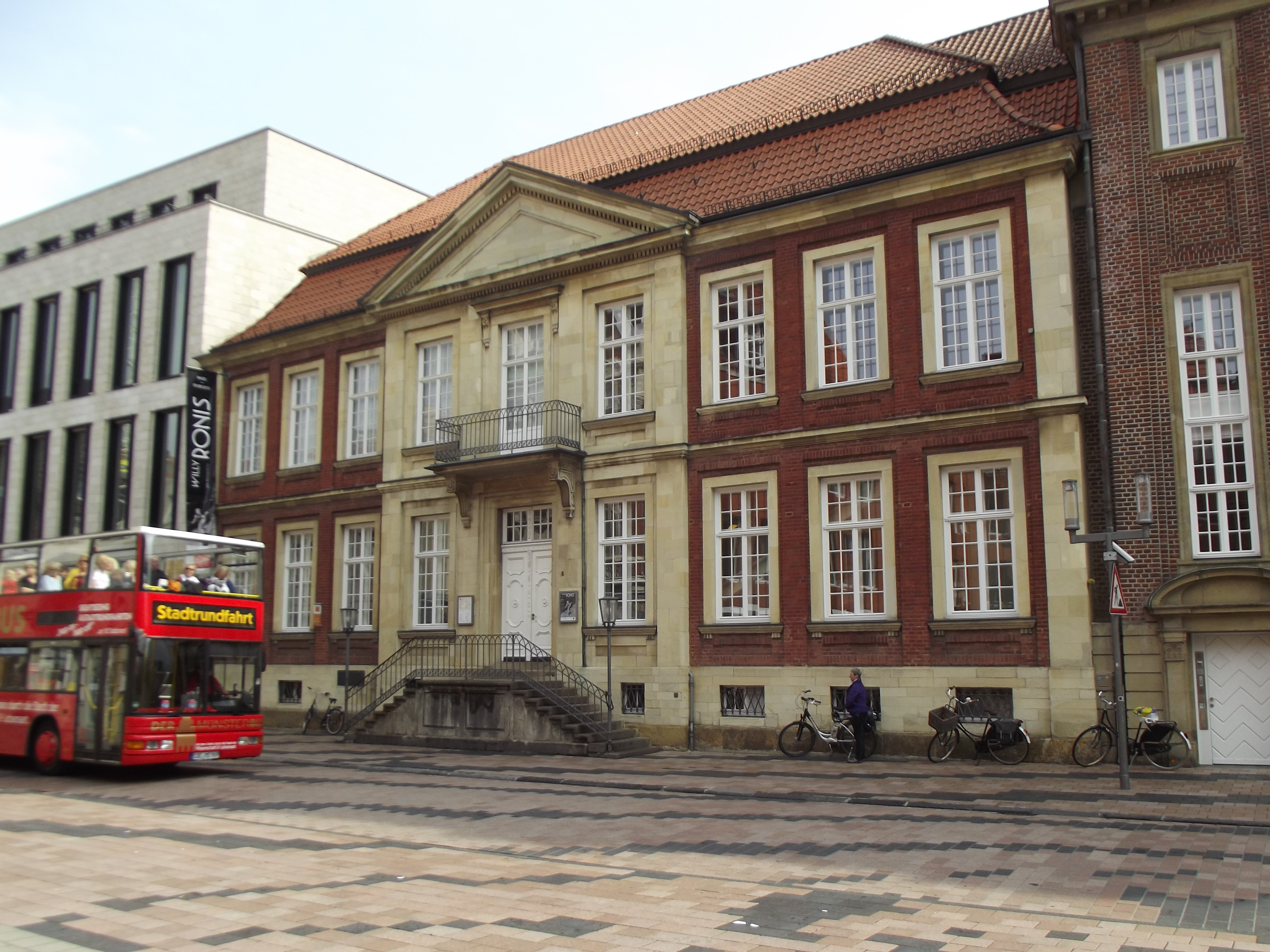 The front of the Pablo Picasso Museum in Münster, which is a fixture for all sightseeing tours